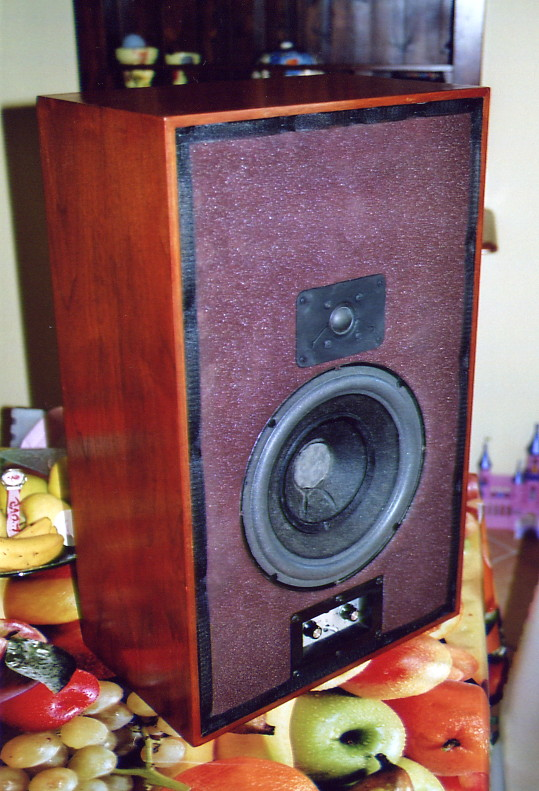 Picture of the Loudspeaker System "CIZEK Model One"